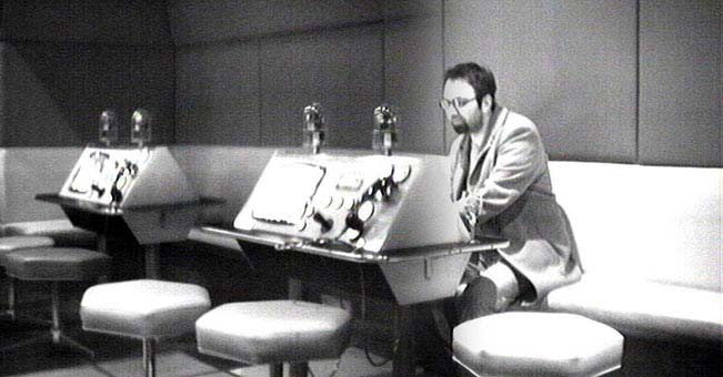 Miguel Soares, portuguese media artist. Born 1970, Braga, Portugal. AKA migso